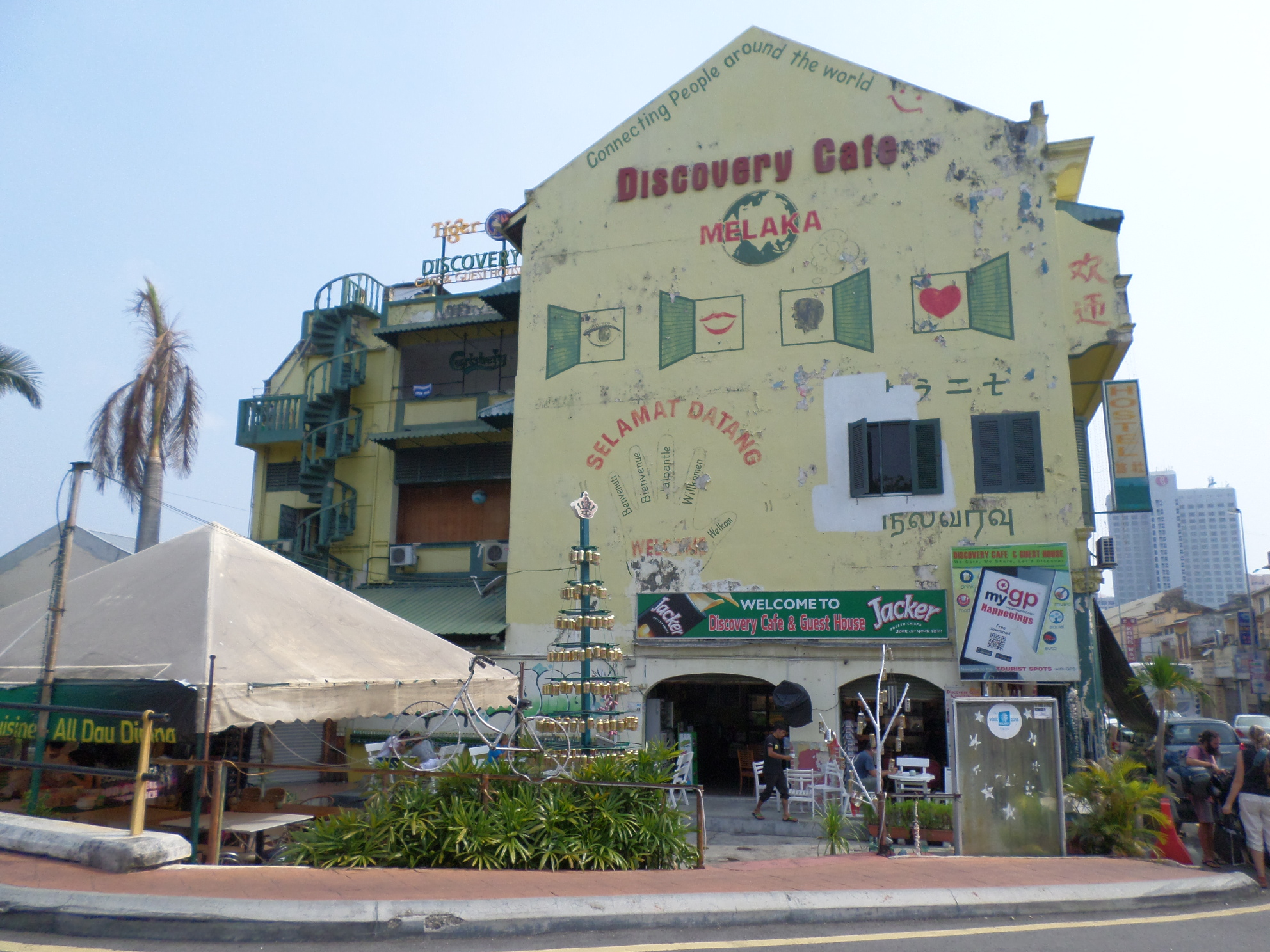 Discovery Cafe, Melaka City, Central Melaka, Melaka, Malaysia